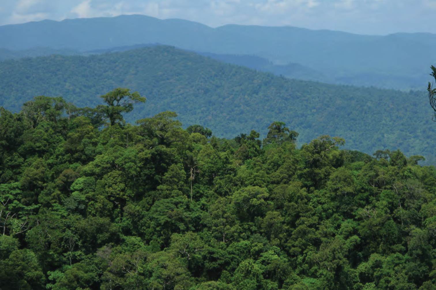 View south of the northern Sierra Madre (from peak of Mt. Cagua, Municipality of Gonzaga, Cagayan Province). Photo: LJW.